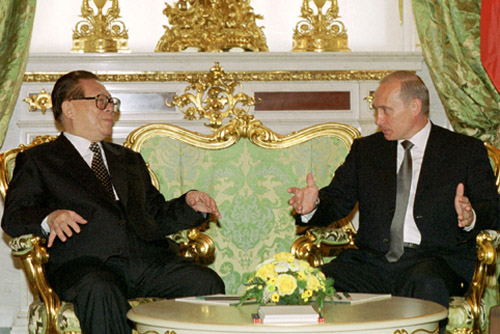 THE GRAND KREMLIN PALACE, MOSCOW. President Putin in discussion with Chinese President Jiang Zemin.